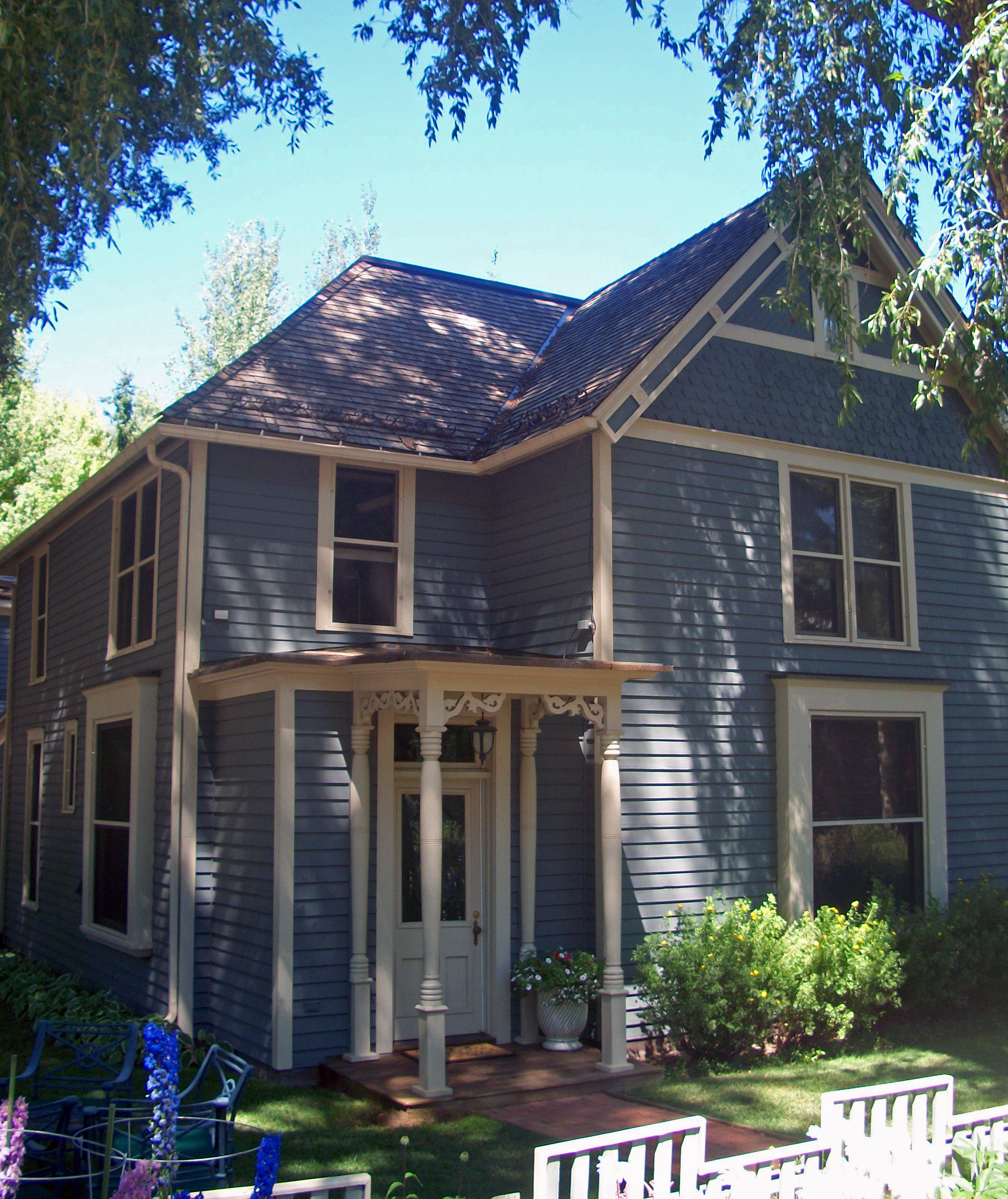 Home of Davis Waite, former Colorado governor, Aspen, CO, USA